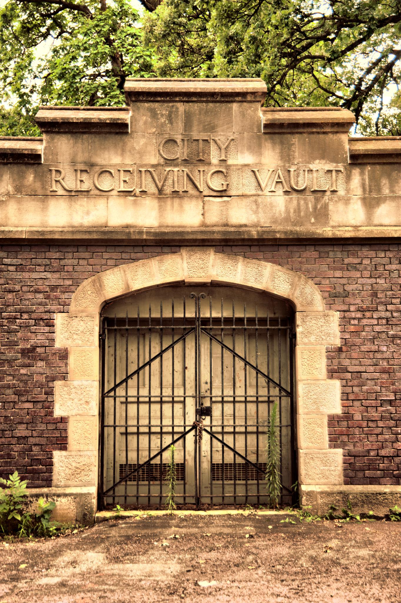 A short trip through Woodland Cemetery in Des Moines, Iowa.